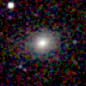 NGC 1 in near-infrared wavelength (J-H-Ks bands composite).